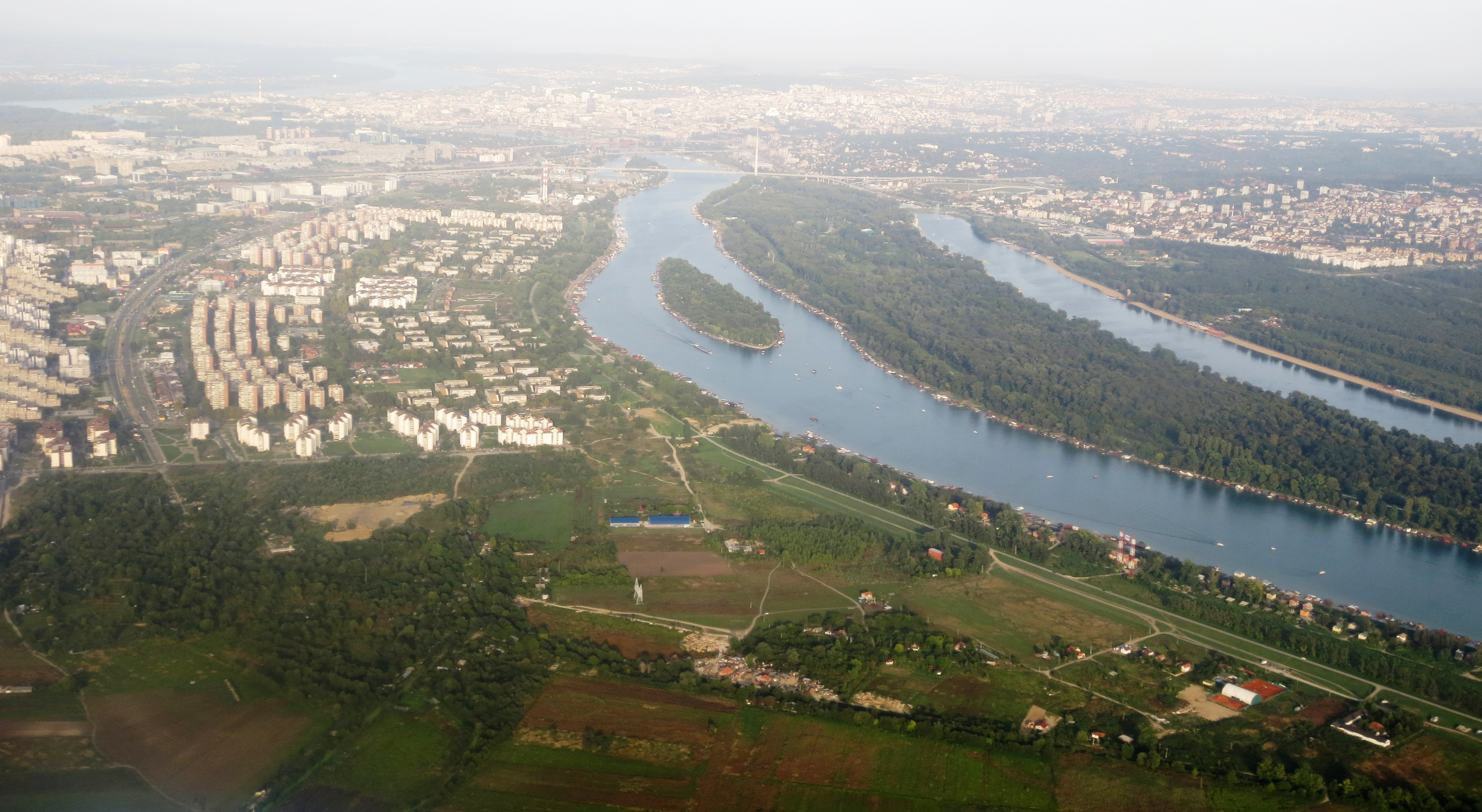 Novy Beograd seen from the South towards North.